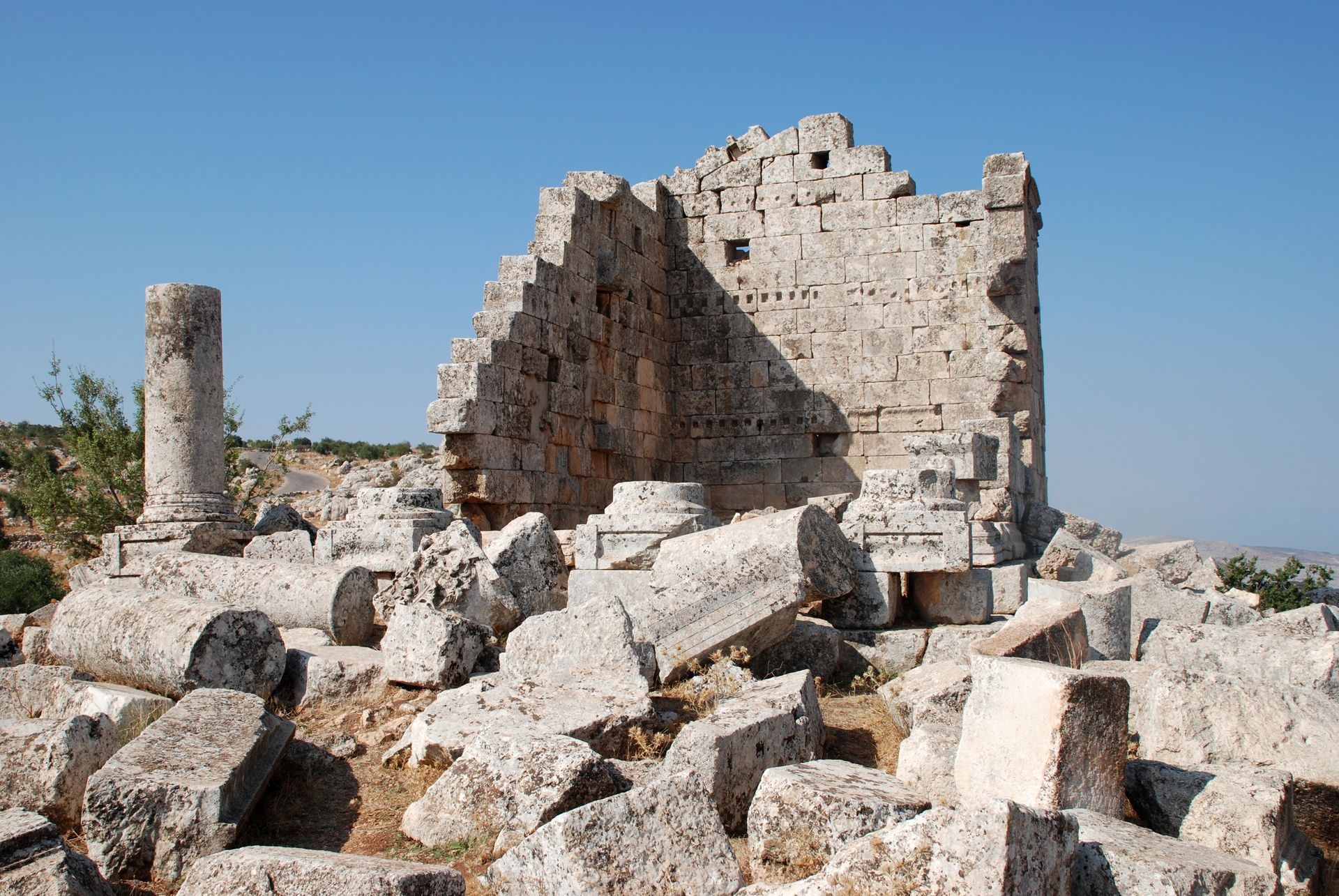 Baqirha, dead city in Syria, temple of Zeus Bomos, from west